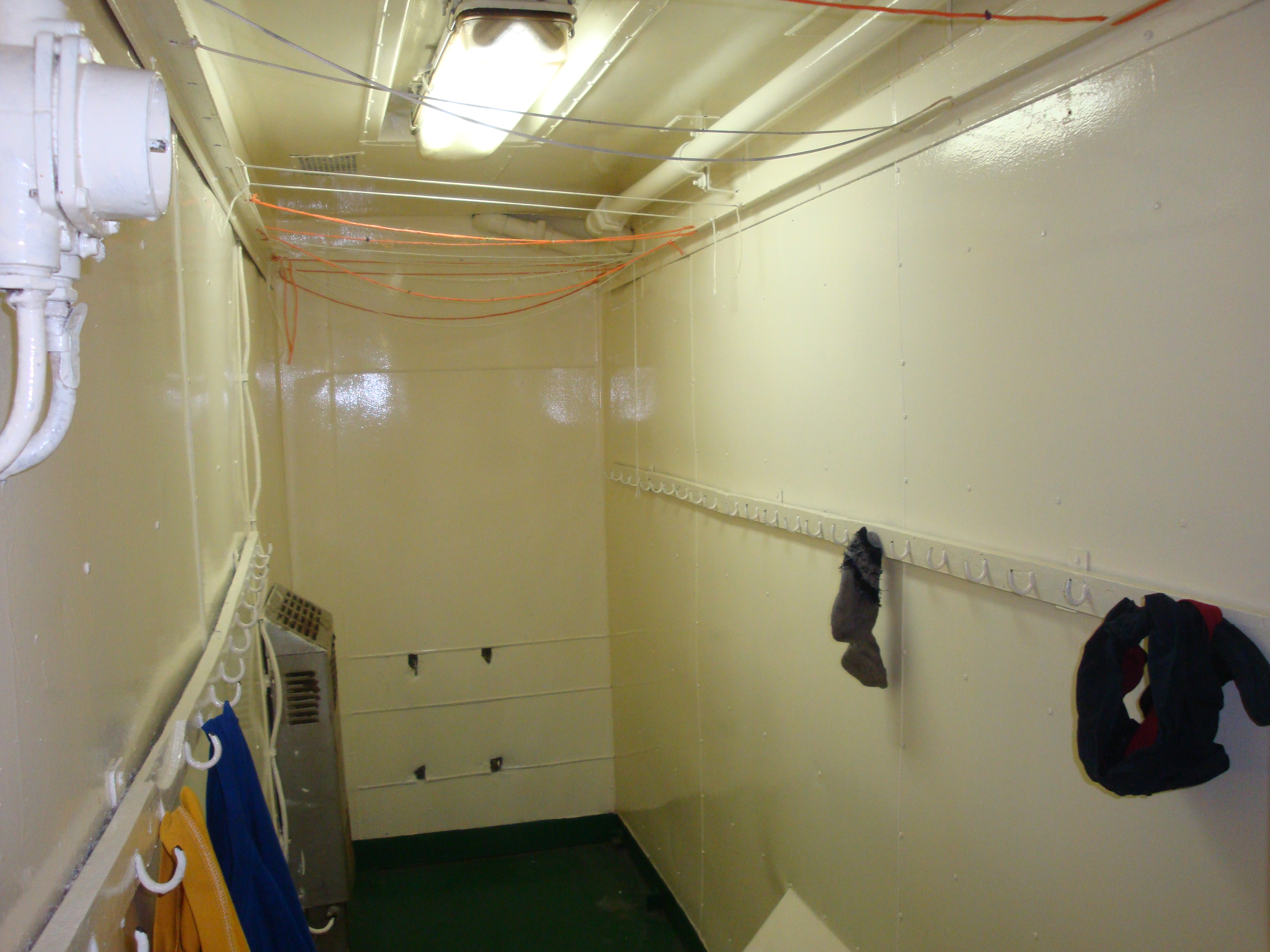 Clothes drying room on Polish tall ship Dar Młodzieży